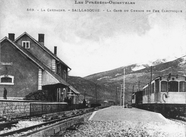 Train station of Sallagosa, in the French commune of Saillagouse